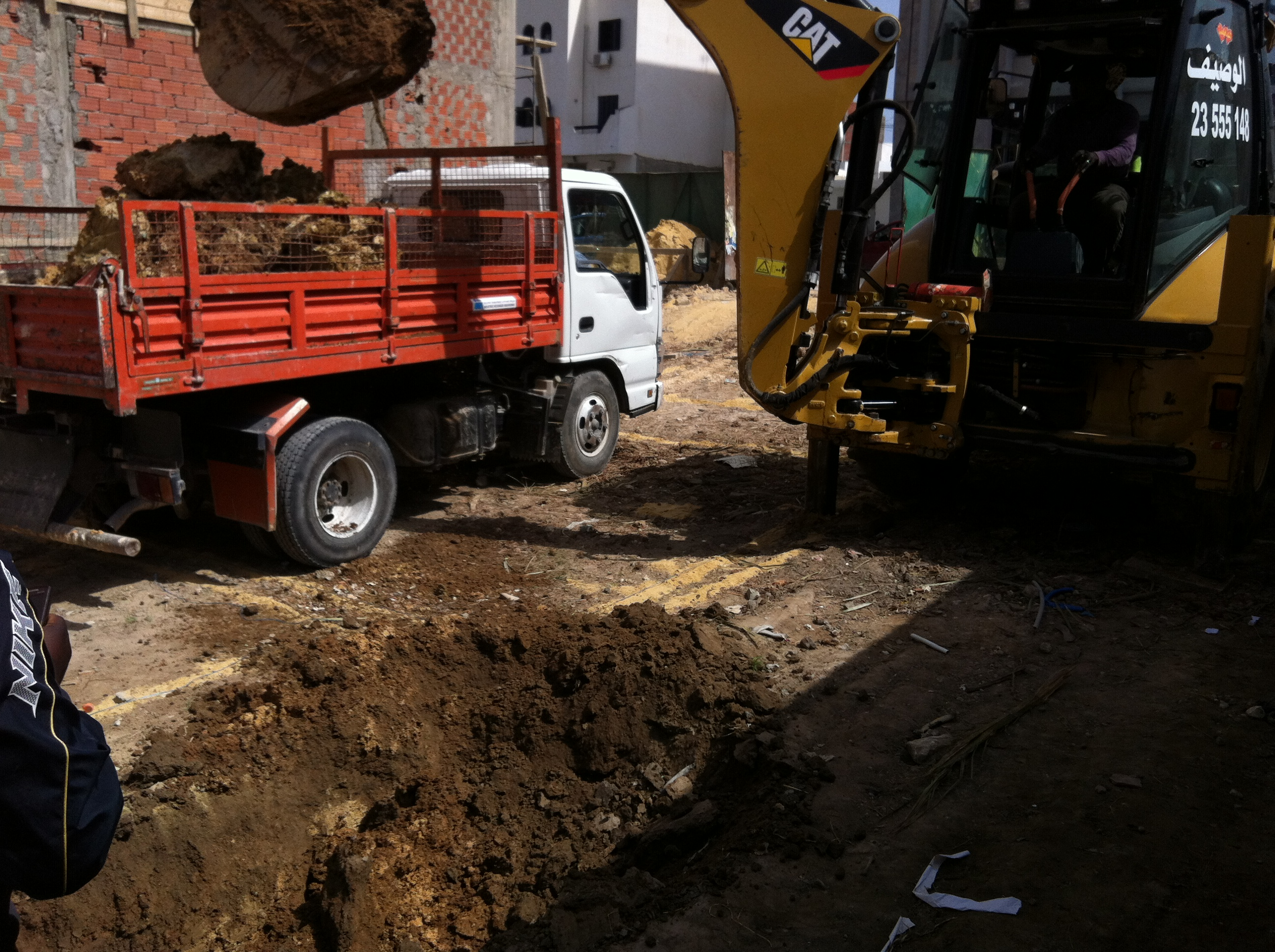 Construction in Tunisia